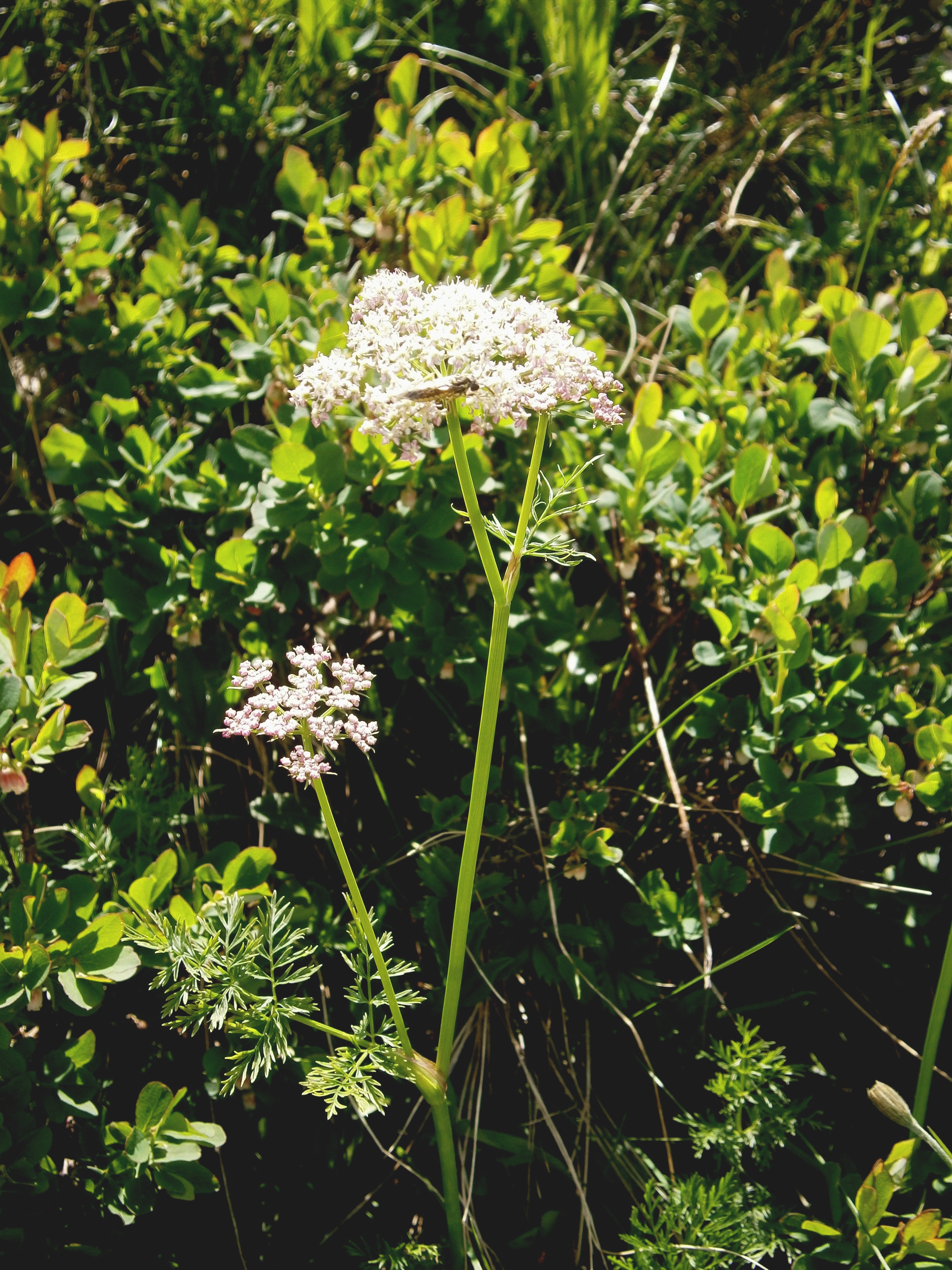 Ligusticum mutellina